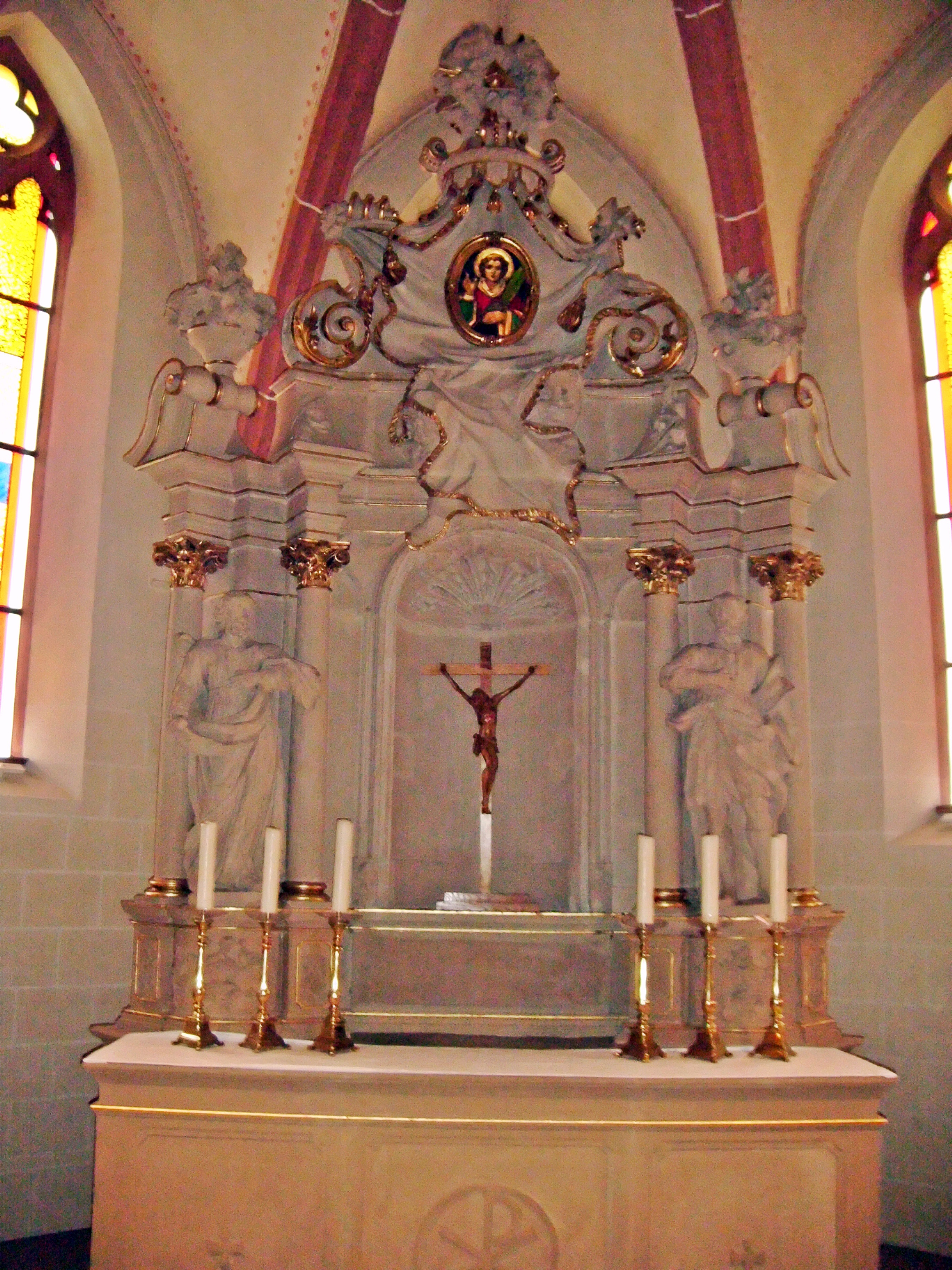 Hochaltar der St. Stephans Kirche Grünstadt-Sausenheim, gestiftet 1728 vom Womser Domvikar Martin Augsthaler